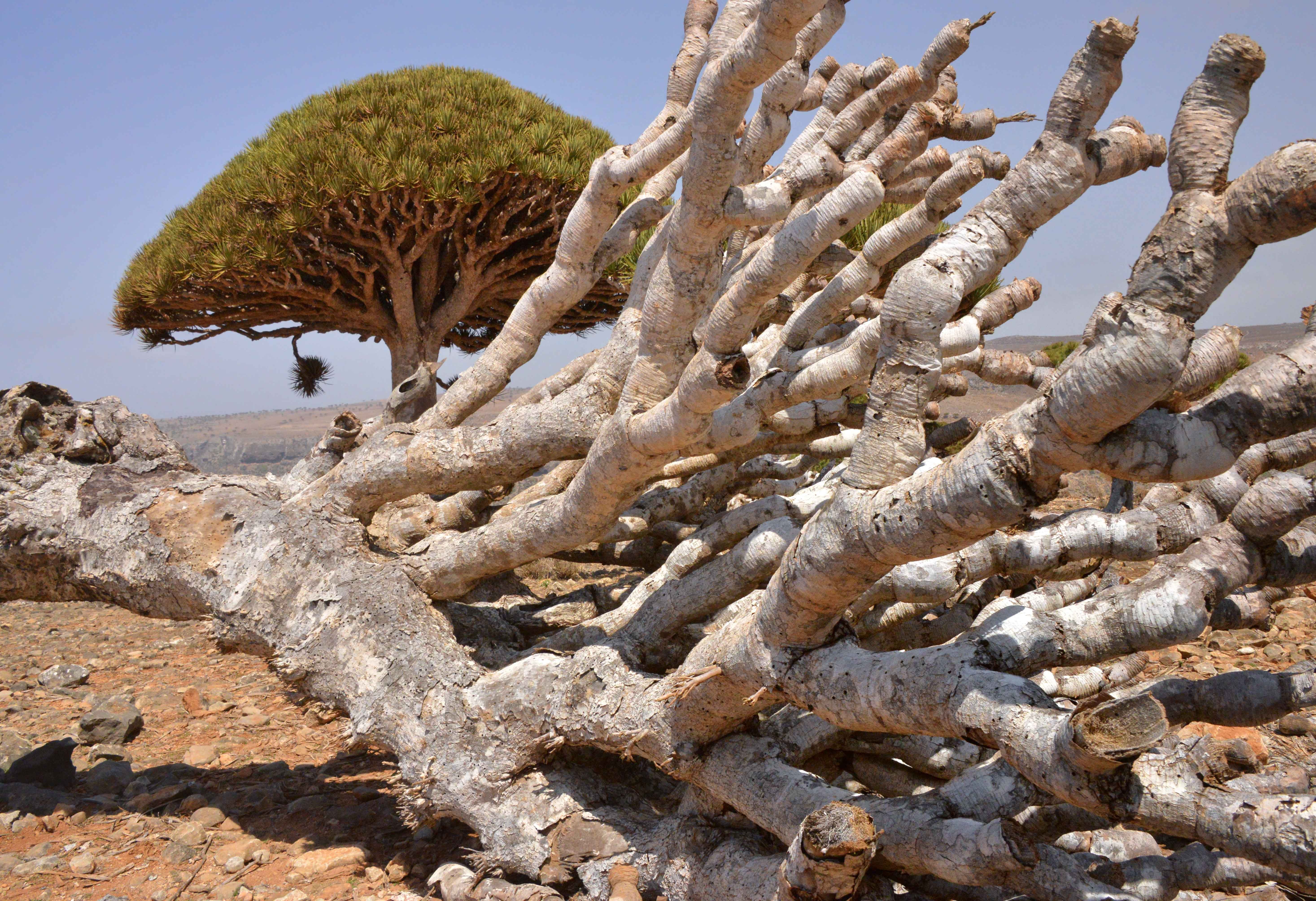 Socotra Island, Yemen